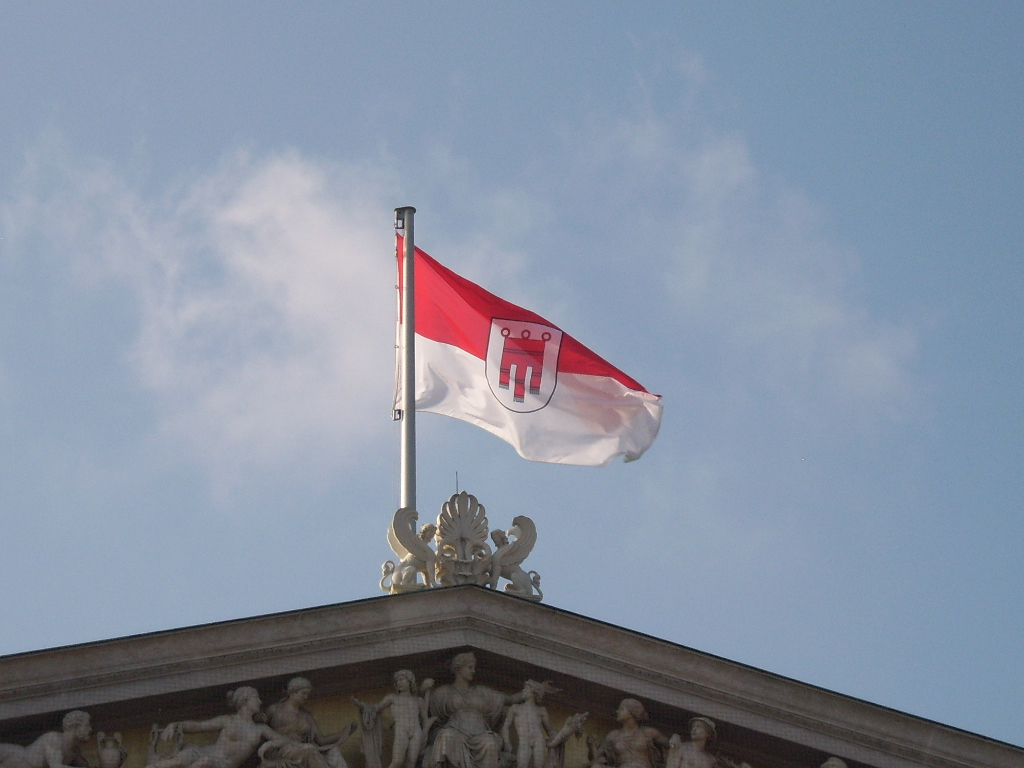 The flag of Vorarlberg on the roof of the austrian parliament.